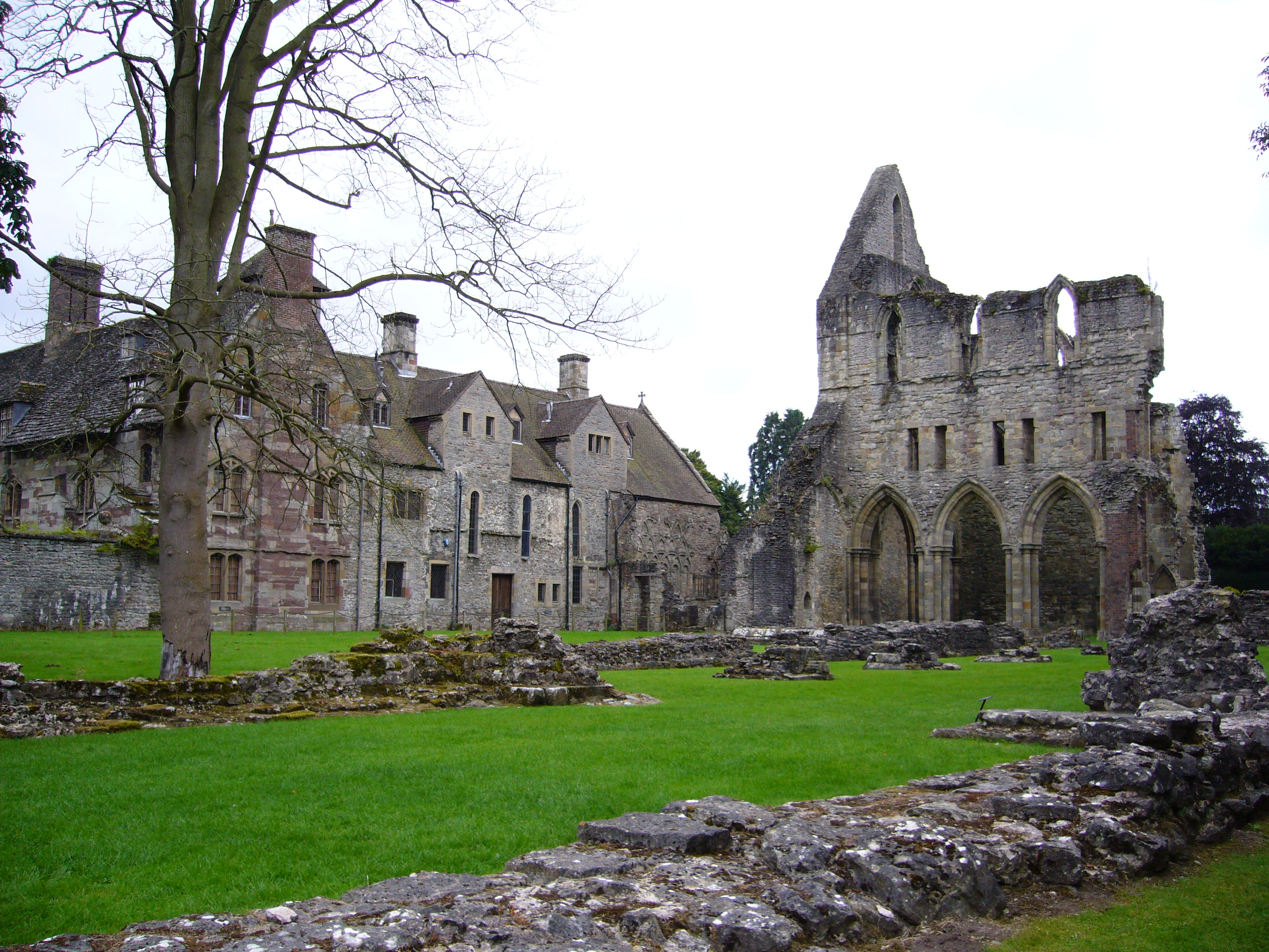 Wenlock Priory